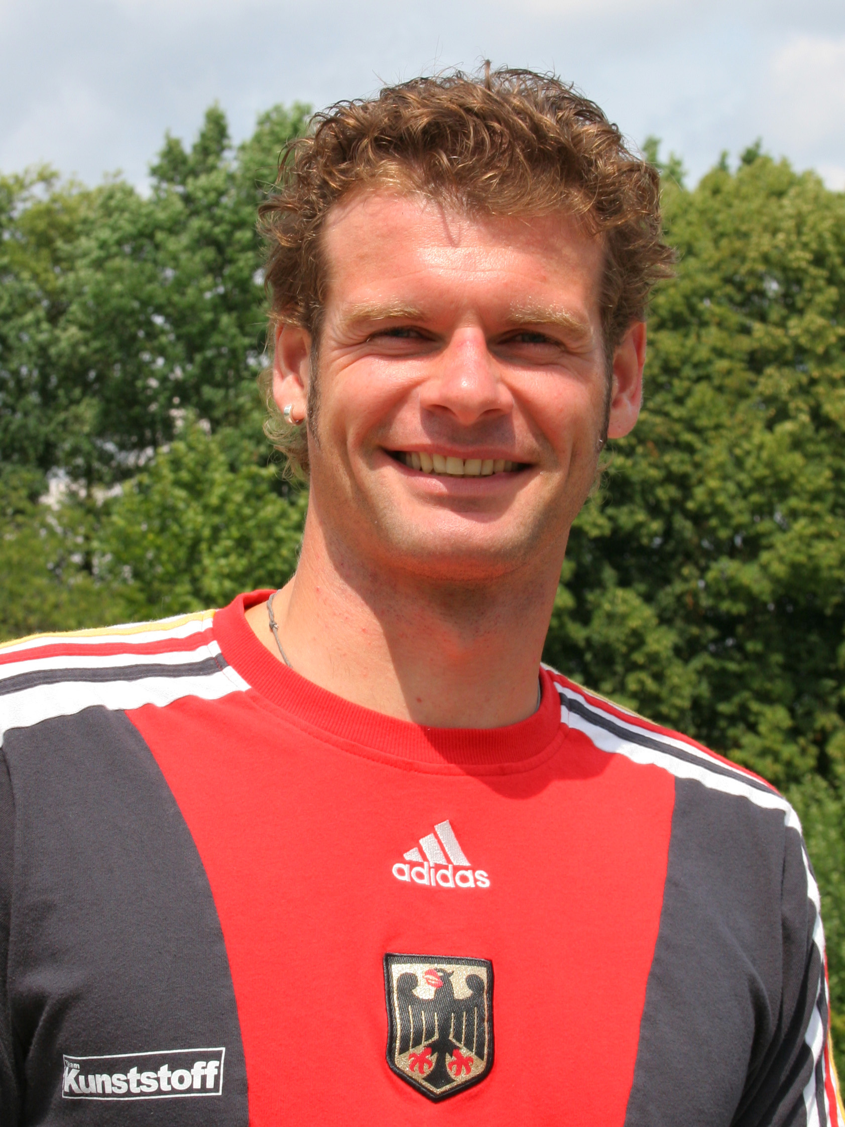 Björn Bach World Champion Canoe Sprint